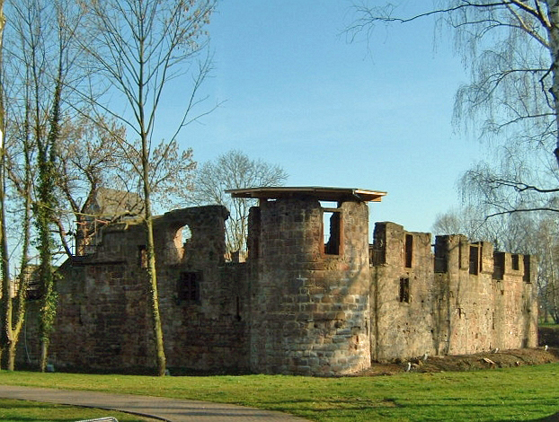 Bad Vilbel, town in Hesse. Here:View of the ancient water-castle